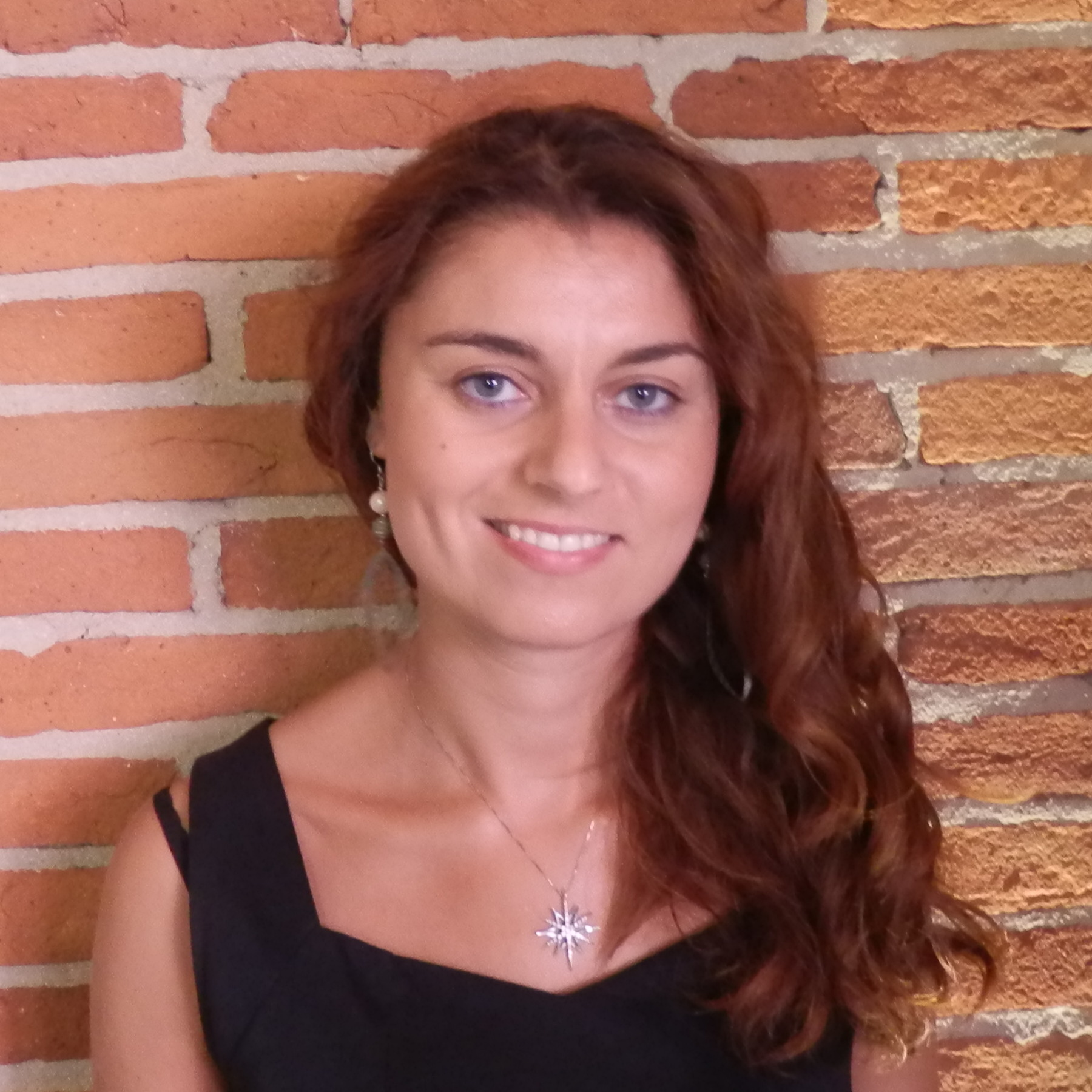 Photo of Susanna Ceccardi when she was the mayor of Cascina